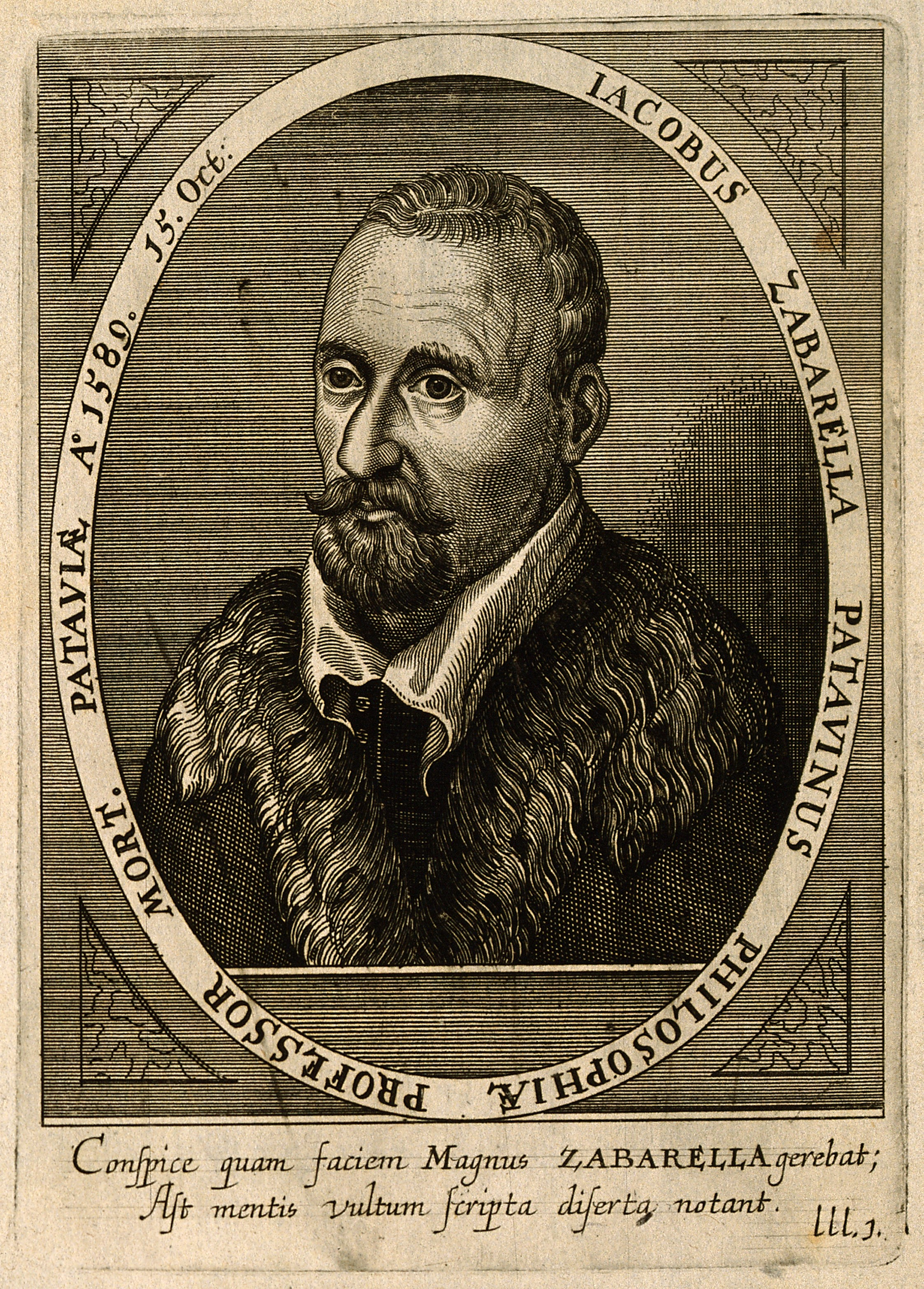 Jacobus Zabarella. Line engraving by C. Ammon, 1652. Iconographic Collections Keywords: portrait prints; engravings; Jacobus Zabarella